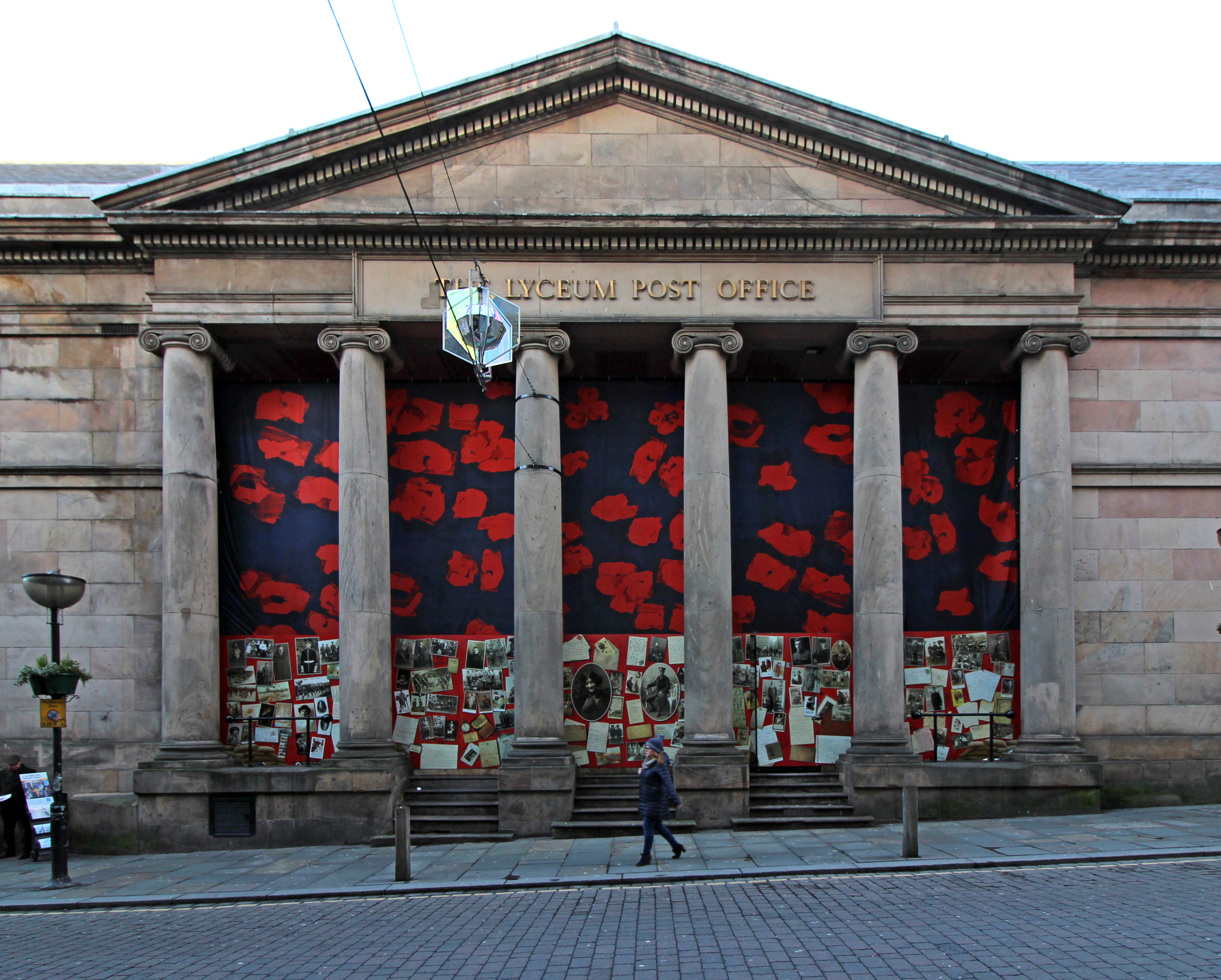 The Lyceum is a Grade II* listed building; this is the former entrance on Bold Street, Liverpool, currently hosting a war memorial display while the interior is under renovation.